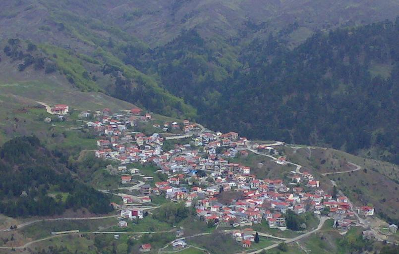 Avdella Village